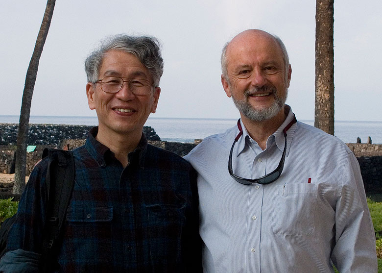 Atsuto Suzuki, Director General of the High Energy Accelerator Research Organization, and Piermaria Oddone, Director of the Fermi National Accelerator Laboratory, attended a US-Japan symposium on October, 2010.